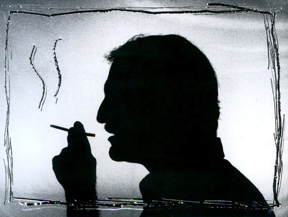 Auto - Portrait of Augusto De Luca